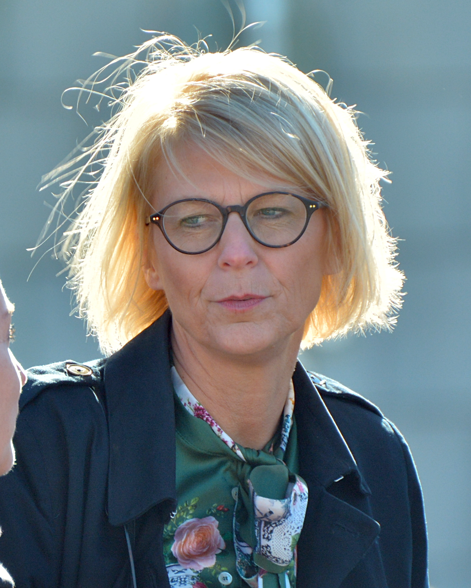 Elisabeth Svantesson, member of the Riksdag for the Moderate Party.